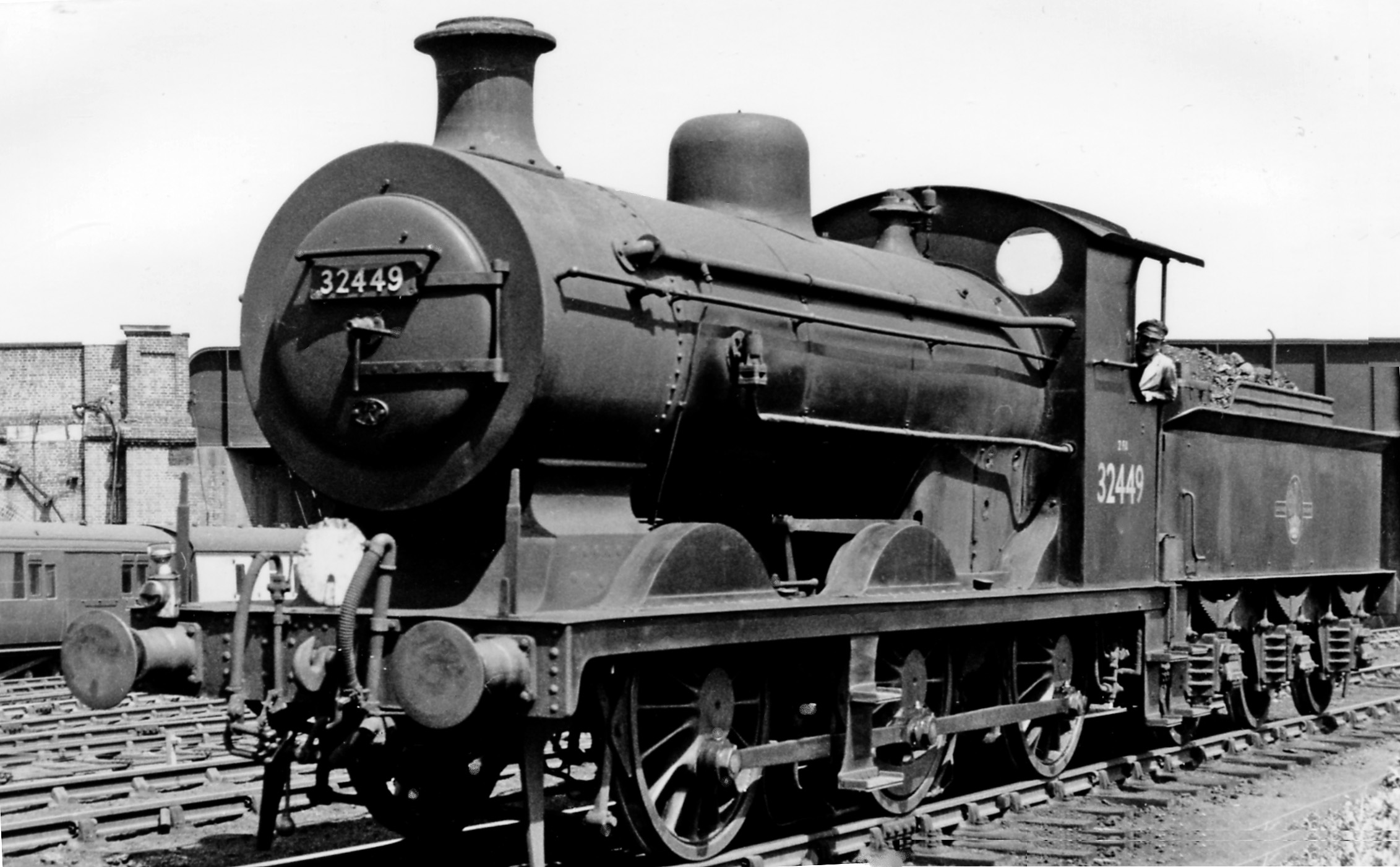 Ex-LB&SCR 0-6-0 near North Kent West Junction. No. 32449 is an R. Billinton C2 class 0-6-0 built 10/1894, rebuilt by Marsh as a C2x in 1/12 and withdrawn 6/61. It is standing on the Bricklayers Arms branch - in the same spot and on the same occasion as the 2-6-0 in TQ3578 : SR 2-6-0 on Bricklayer's Arms branch near North Kent West Junction, Bermondsey.